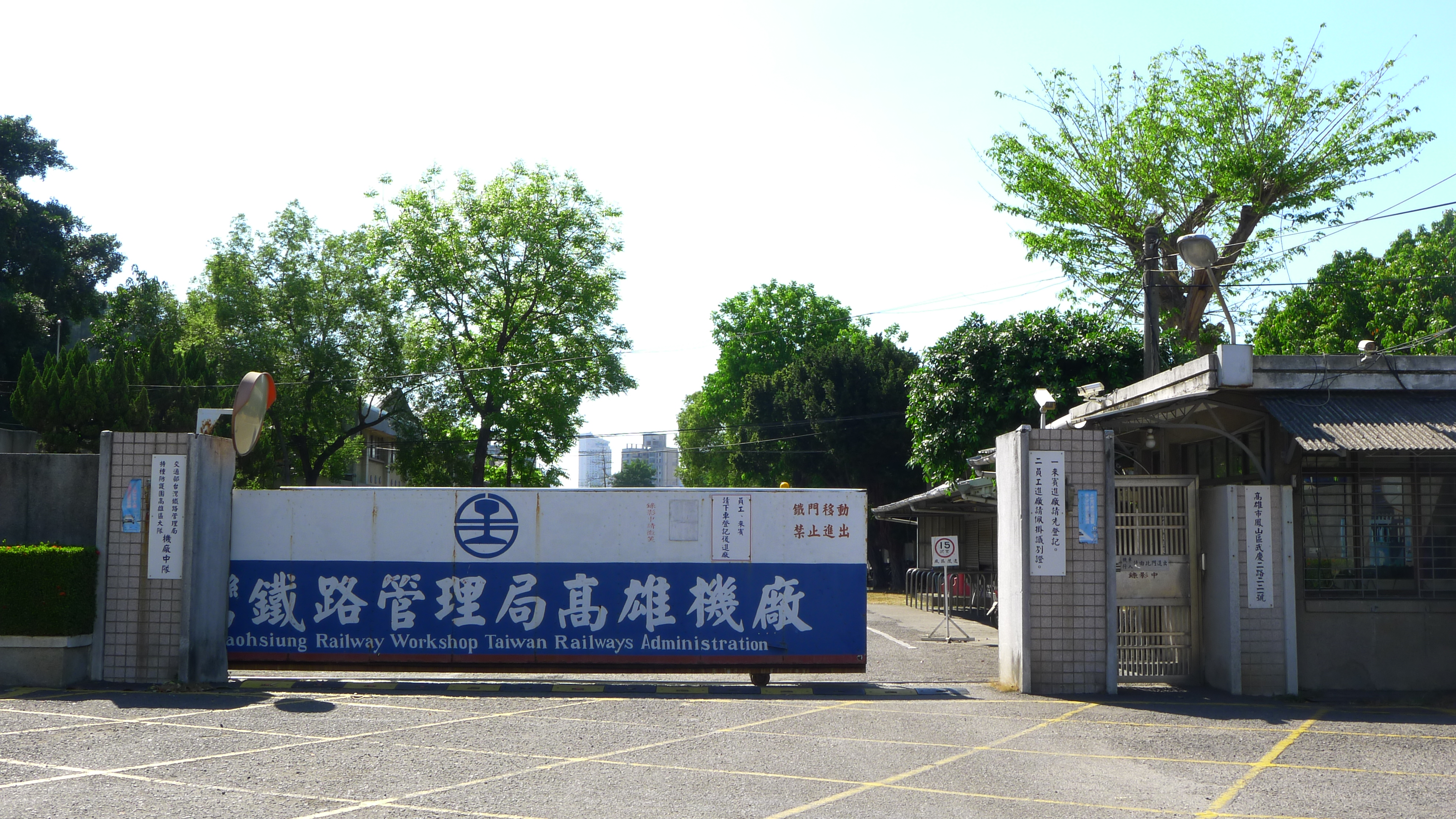 The main (east) gate of Kaohsiung Railway Workshop of the Taiwan Railways Adminstration